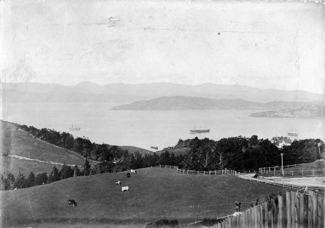 View of Wadestown, Wellington, looking over paddocks where cows are grazing, and out to sea. Taken by a member of the firm Burnell & Charles in 1891. The roof of 'The Grange' can be seen on the right. It is their cows in the first paddock